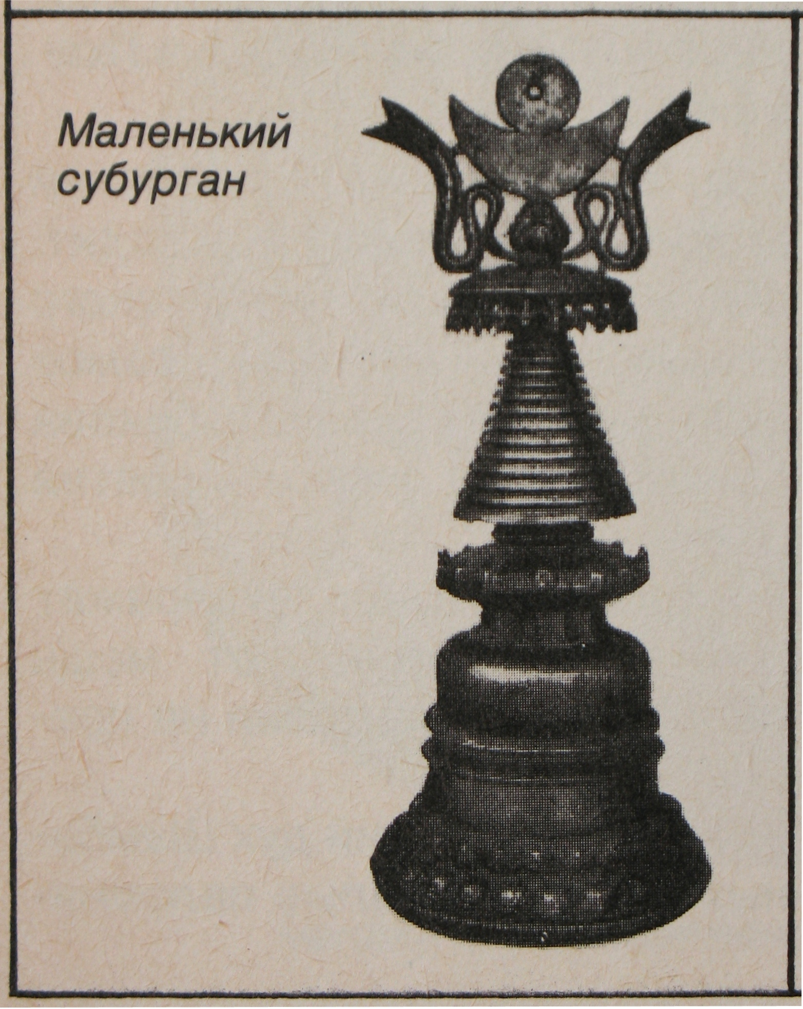 Gombojab Tsybikov photo in Tibet. Фотография сделана во Внутренней Монголии либо Тибете скрытой камерой через прорезь в молитвенной мельнице.